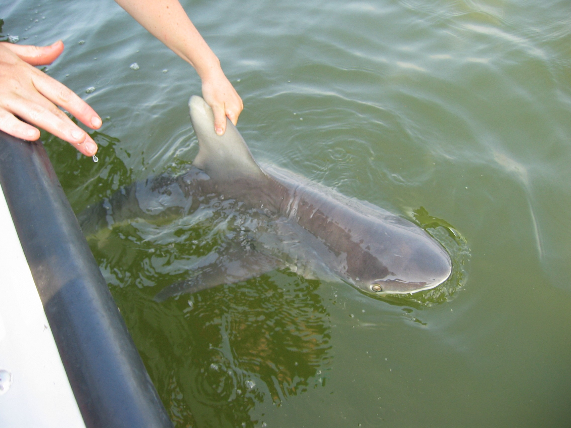 Juvenile sandbar shark (Carcharhinus plumbeus) being released